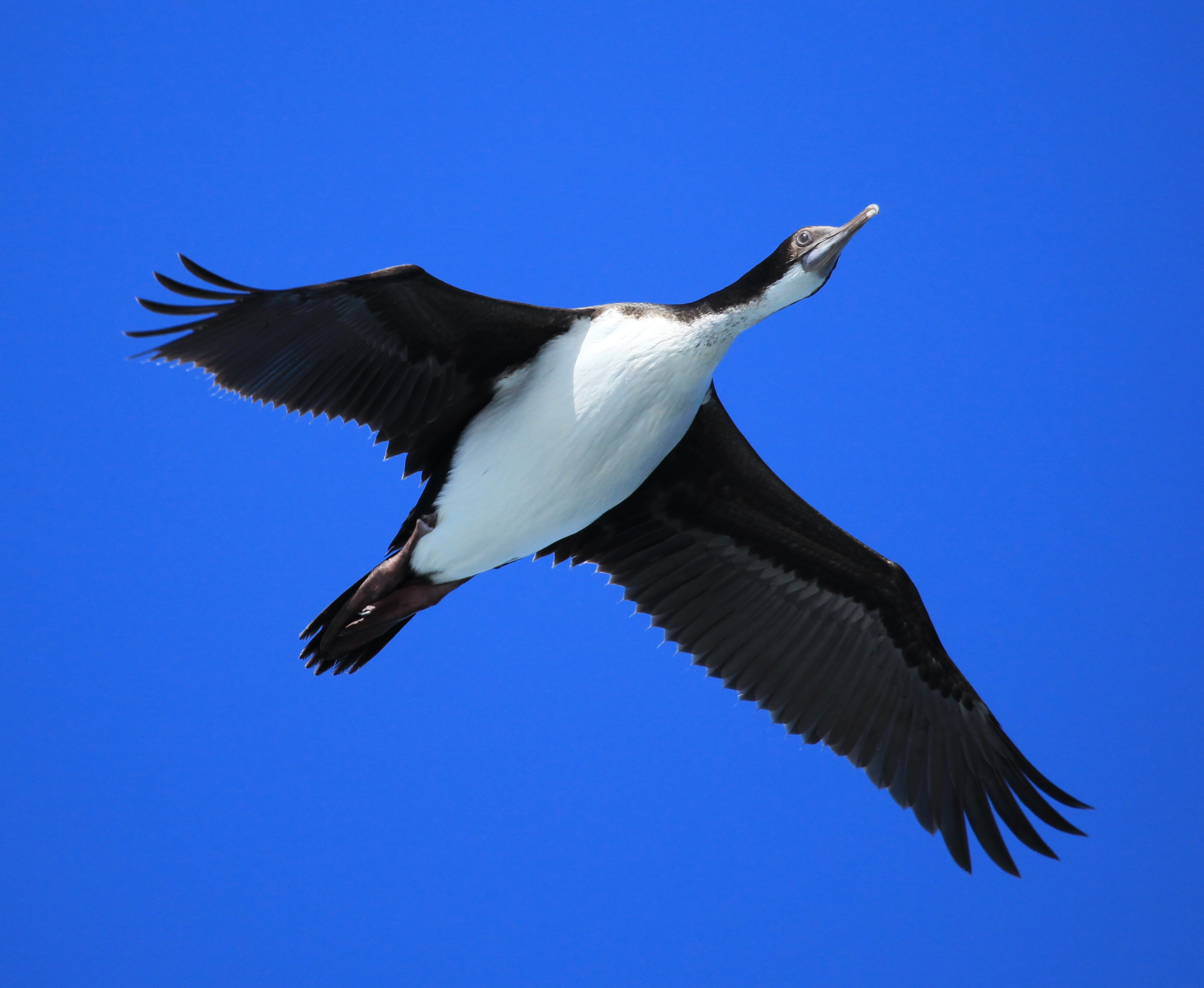 Near Cape Horn at the tip of South America.